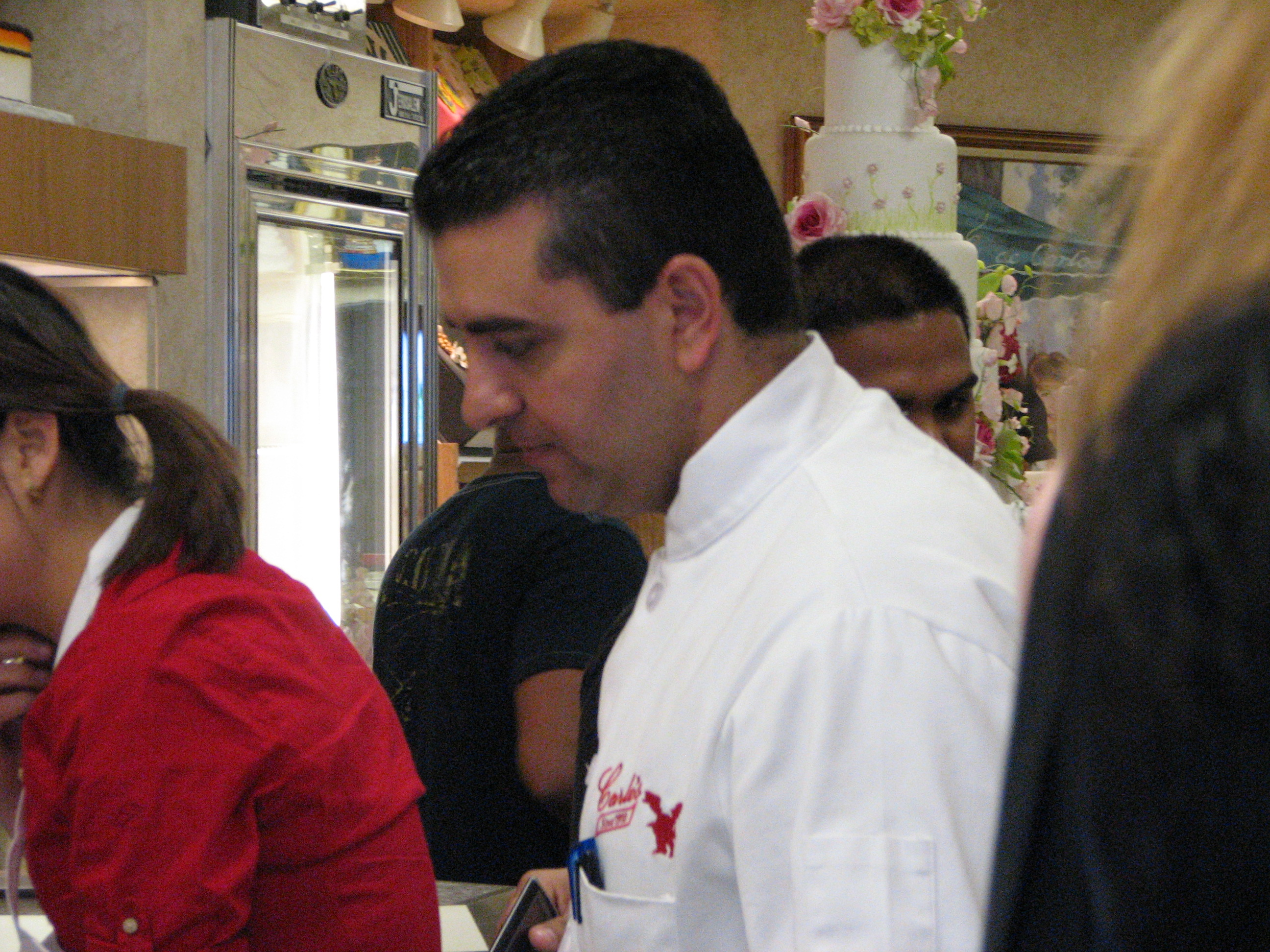 Carlo's city hall bake shop